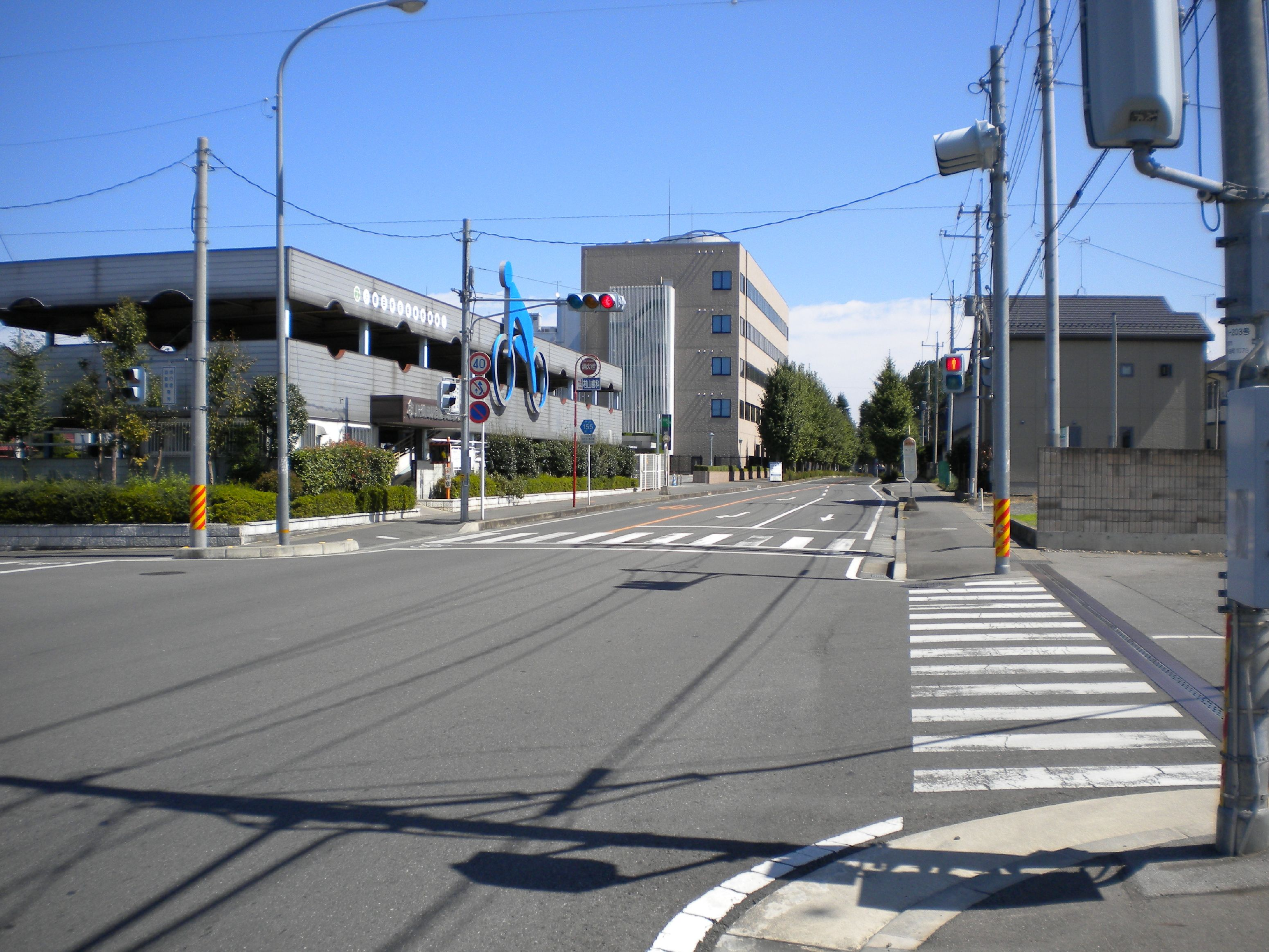 The Tochigi Prefectural Road Route 155 in Nishikawatamachi, Utsunomiya City